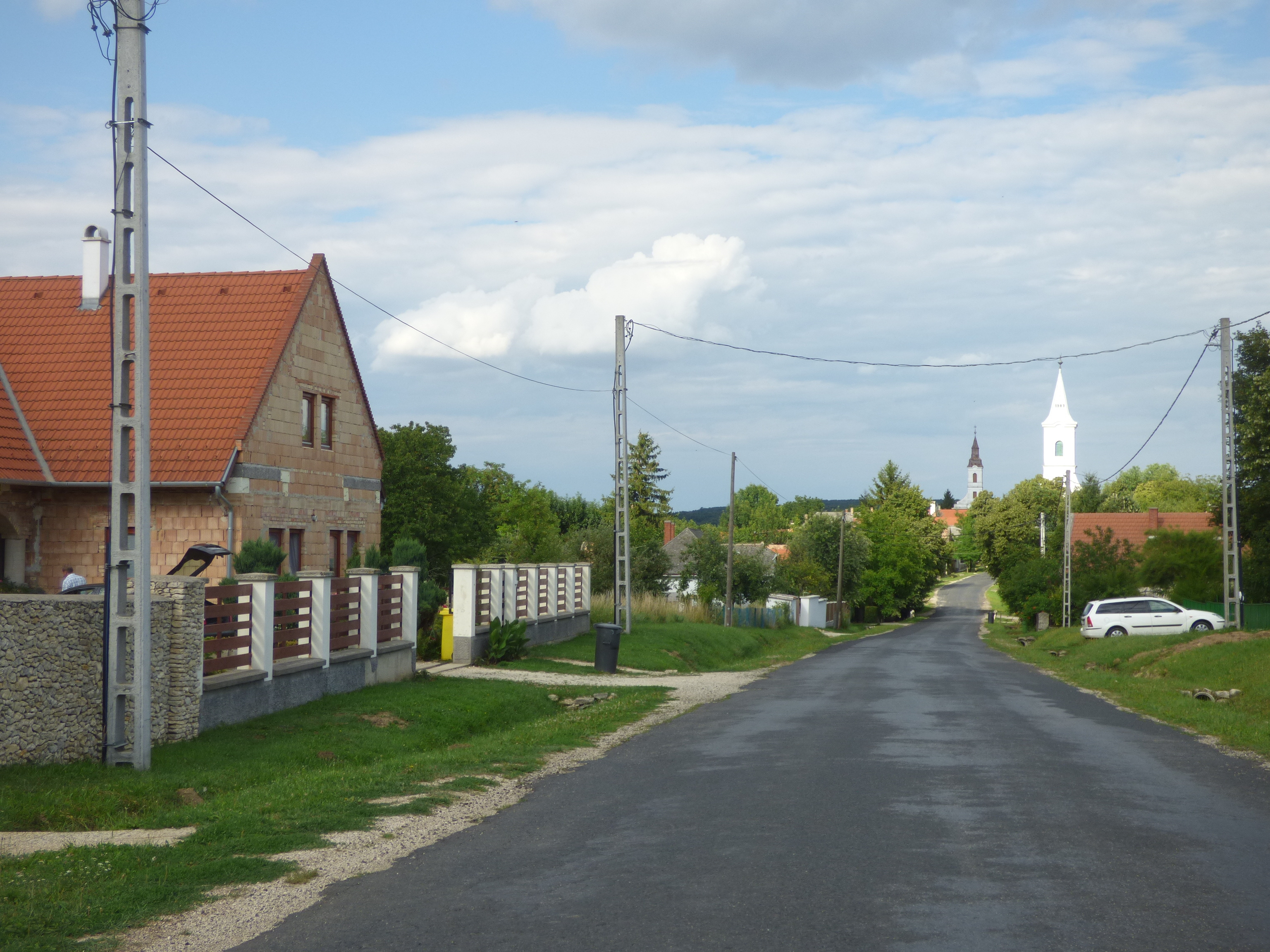 Barnag látképe Nagyvázsony felől